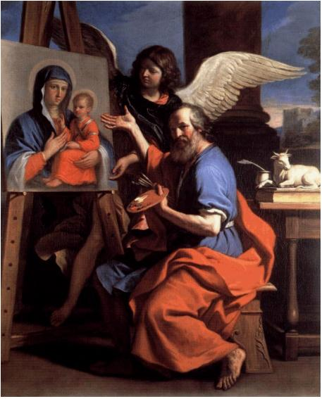 Luke the evangelist who according to the legend was a painter, is presented here while painting a portrait of the Madonna and Child.